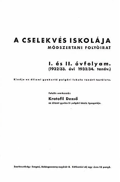 Acting School in Szeged educational magazine 1932/33 1933/34